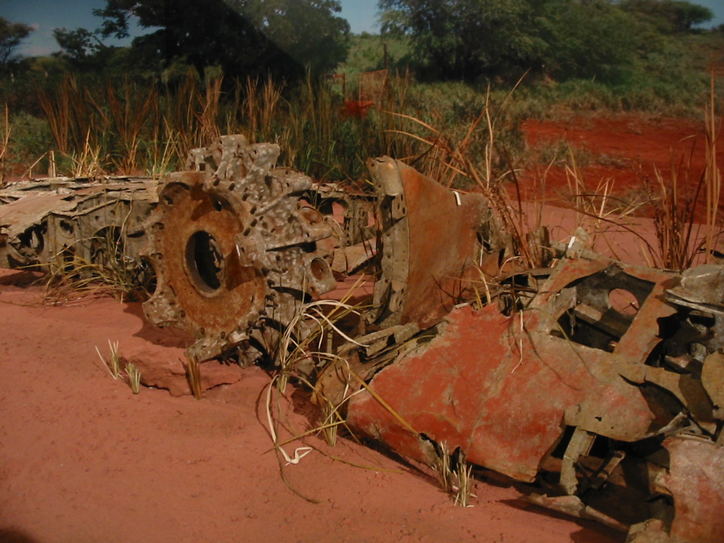 Photographed at the Pacific Aviation Museum on Ford Island in the middle of Pearl Harbor, Hawaii.